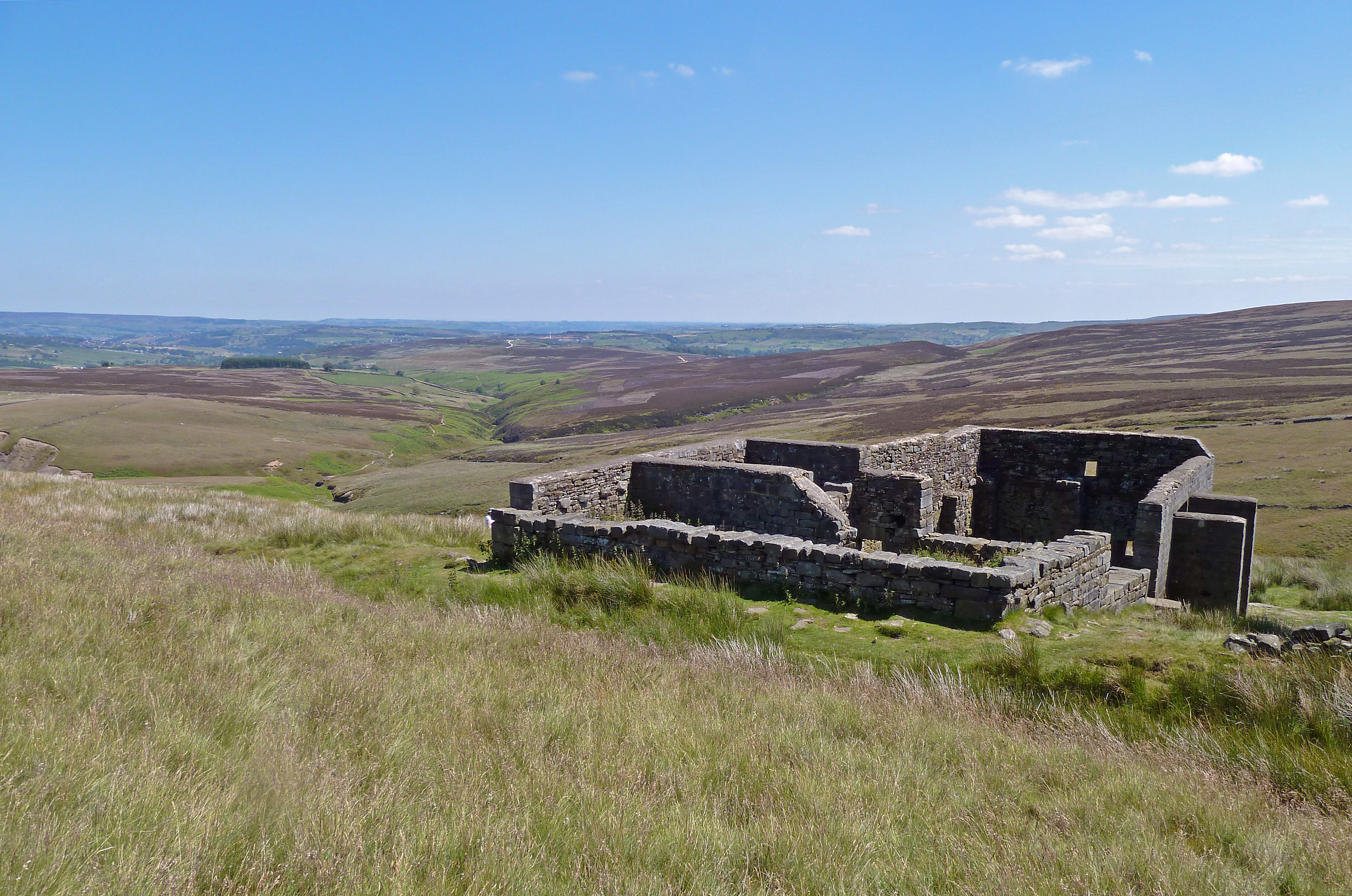 Top Withens